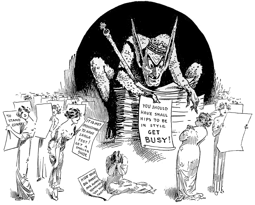 1913 cartoon on the dictates of fashion from the old "Life" magazine. An ugly long-eared spirit of fashion (with crown and sceptre) passes out decrees to women, such as "You should have small hips to be in style. GET BUSY!" or "It is not fashionable to have large feet! Get a smaller shoe" or "Hide your big ankles and always remember you have them" or "To stand correc...".